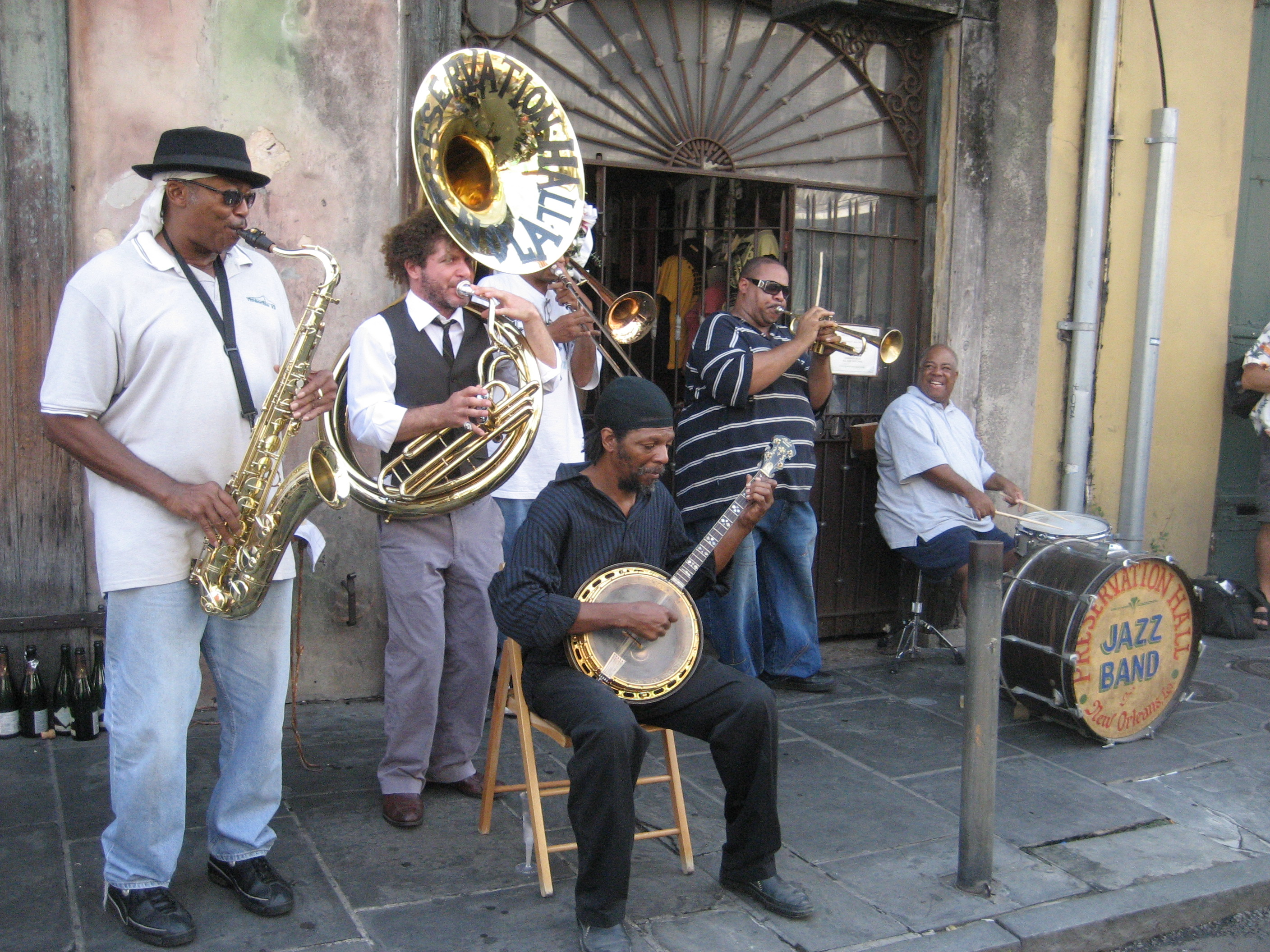 New Orleans: Preservation Hall Jazz band plays on sidewalk in front of the Hall at start of second line parade in memorial for the late clarinetist Jacques Gauthé. Ben Jaffe, sousaphone; Carl LeBlanc, banjo; Joe Lastie, drums Related photo of same band at same event: Image:PresHallBandJaquesB.jpg